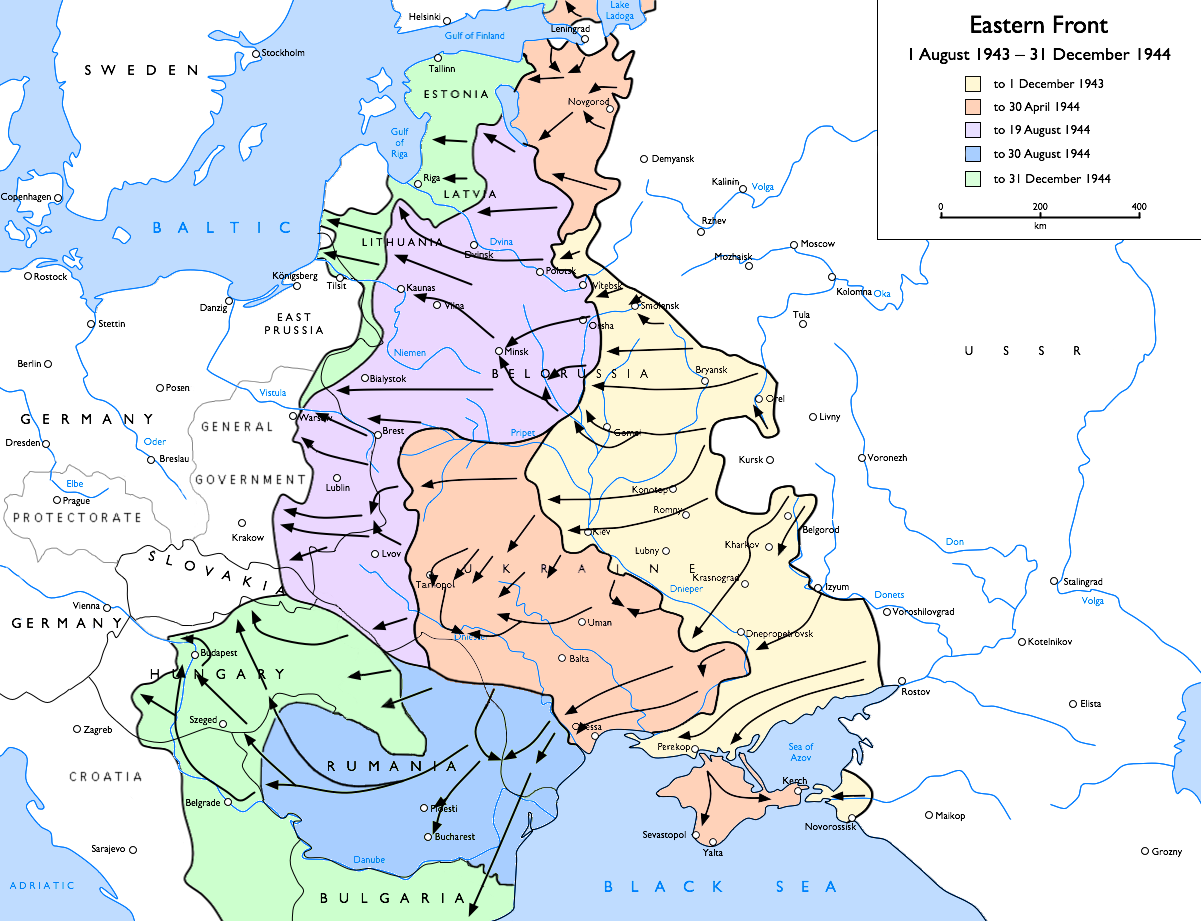 Soviet advances on the Eastern Front (WWII), 1943-08-01 to 1944-12-31